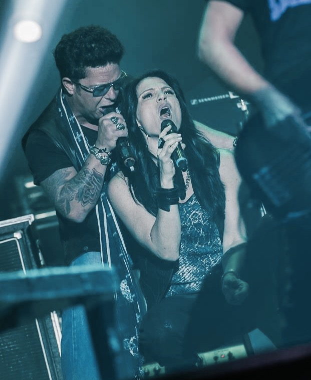 Eric Lapointe & Rosa Laricchiuta